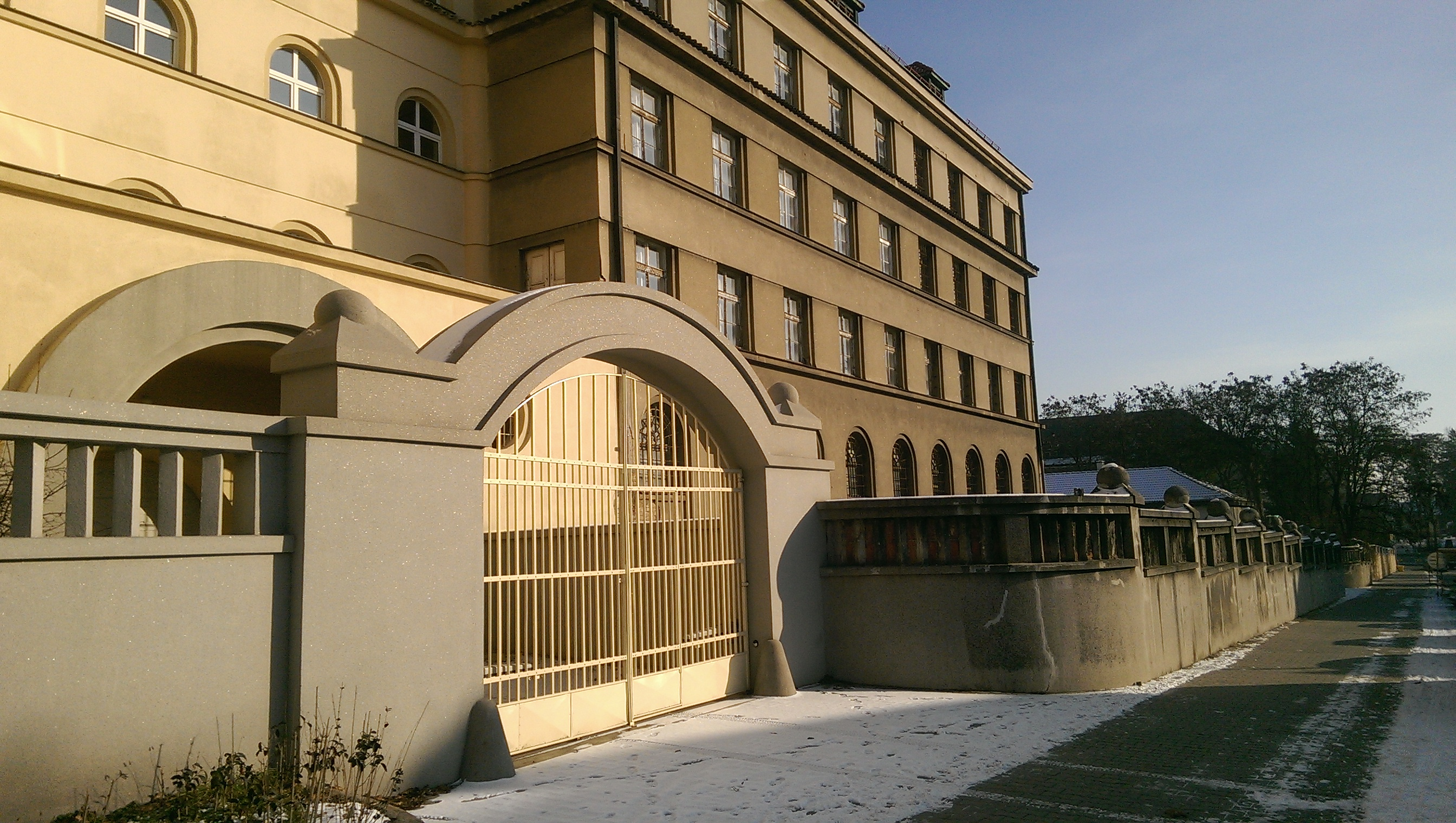 A former prison connected to the building of the District Court in Mladá Boleslav. Currently used as a movie location.